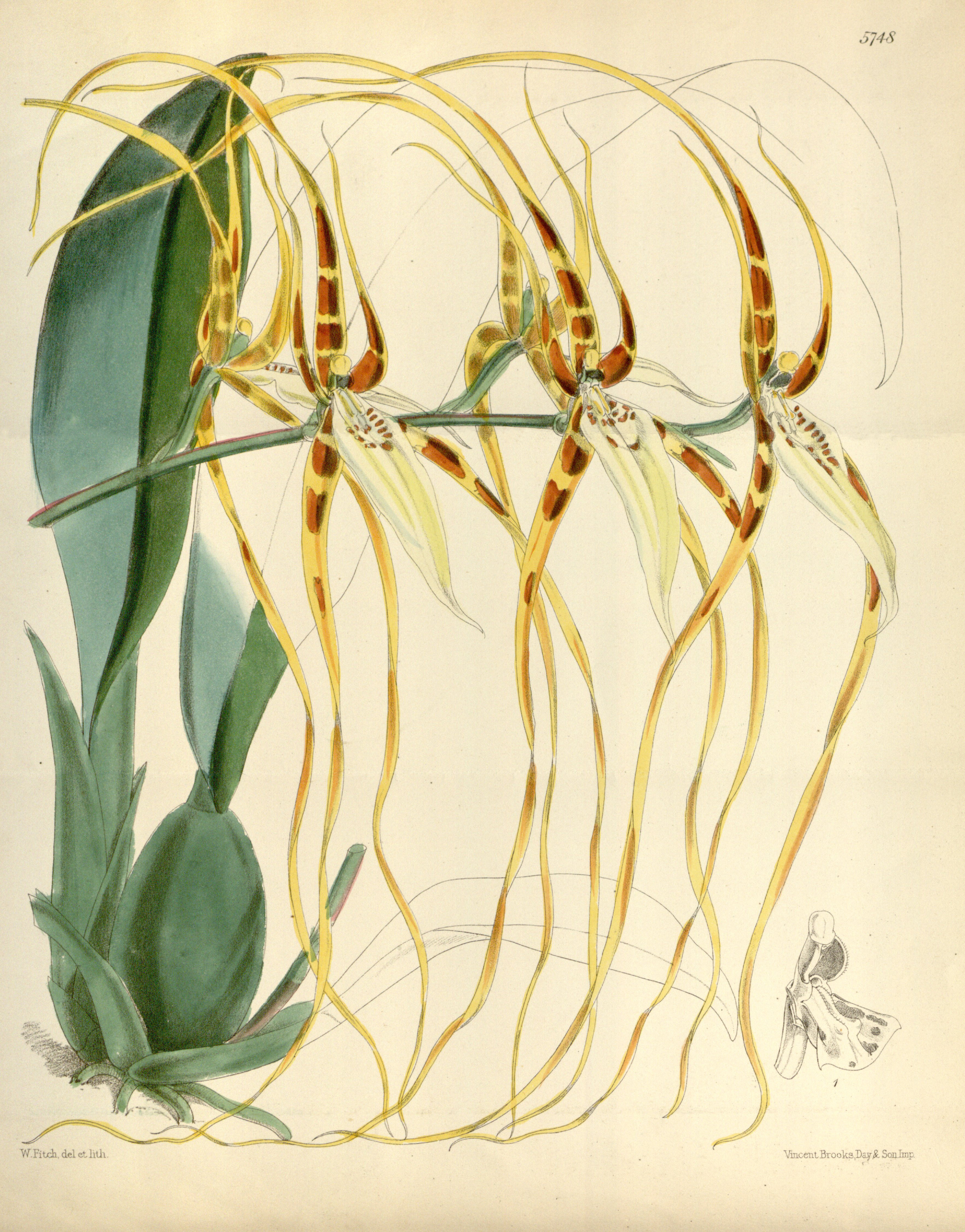 Illustration of Brassia arcuigera (as syn. Brassia lawrenceana var. longissima)